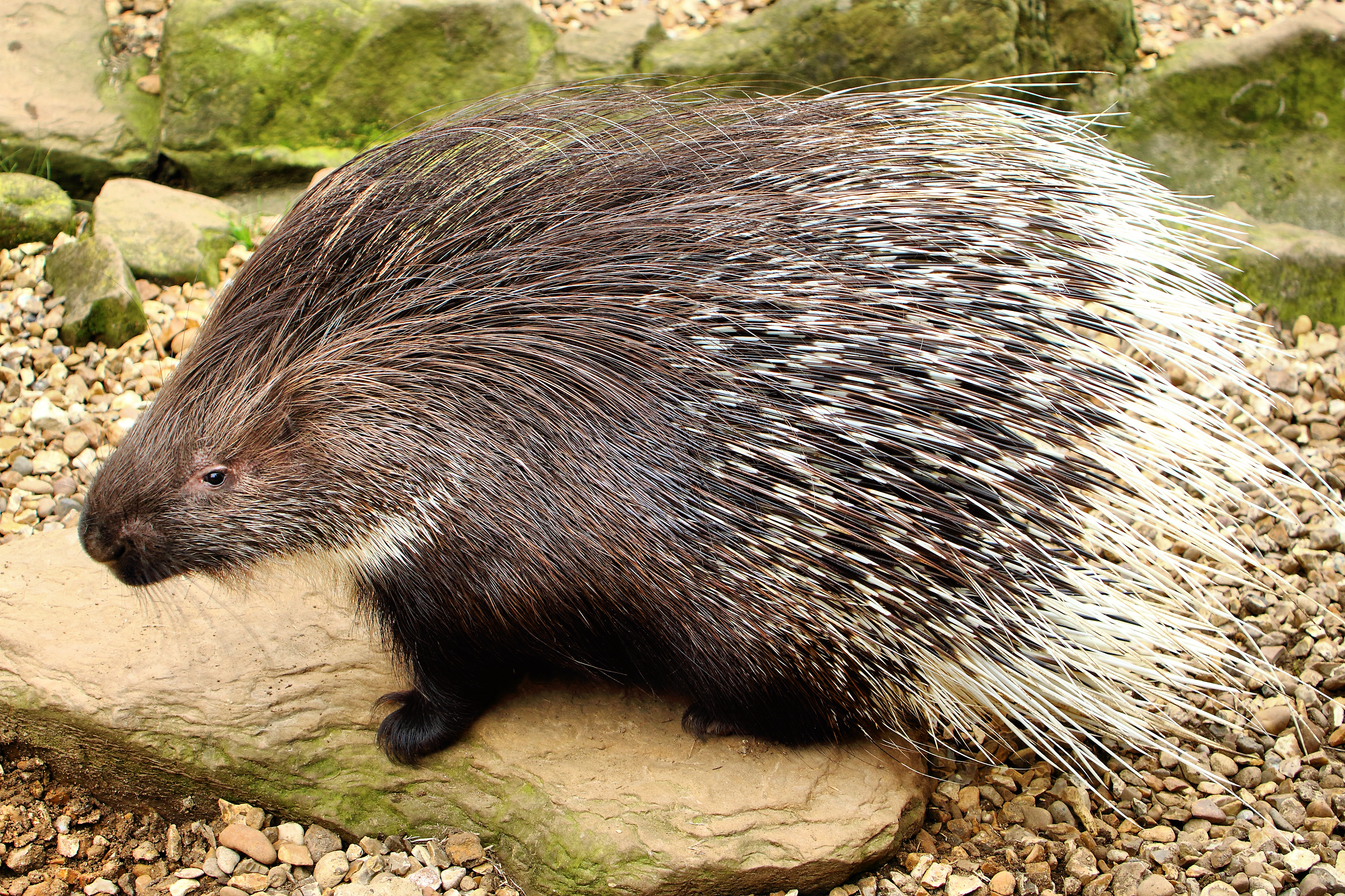 Porcupine - Shepreth Wilife Park